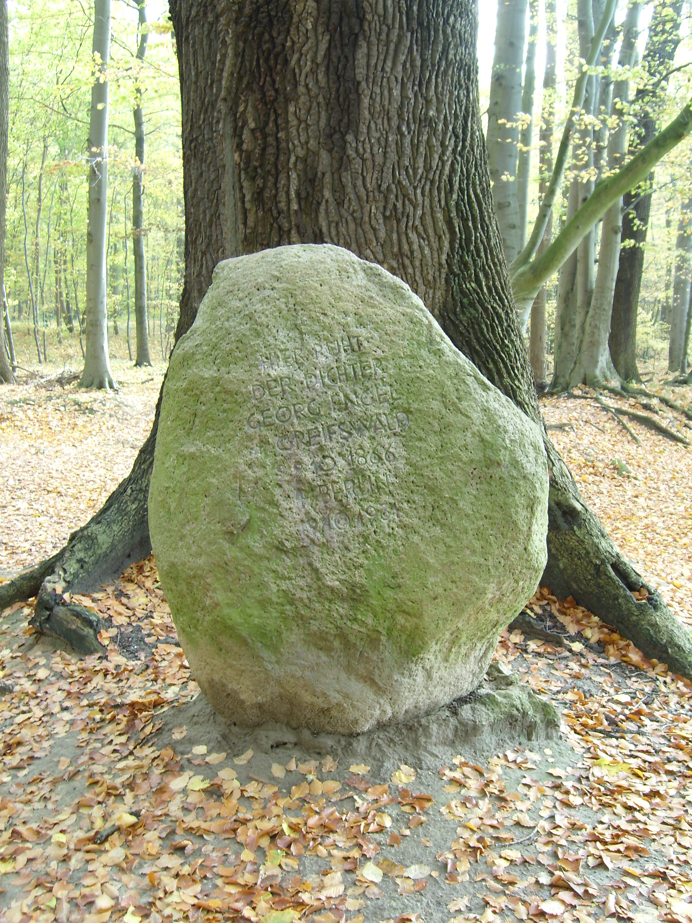 Gravestone of Georg Engel at the nature reserve "Eldena" in Greifswald, Germany